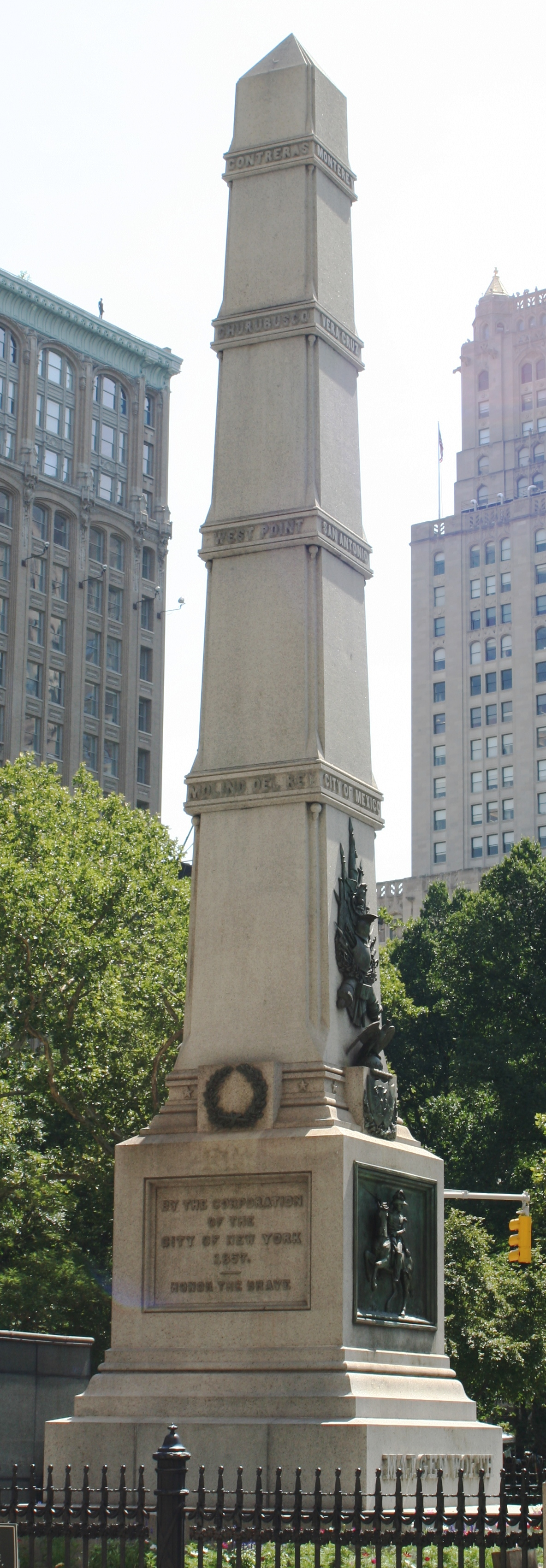 Monument to Mexican War hero Maj. Gen. W.J. Worth in Worth Square, Manhattan, New York City